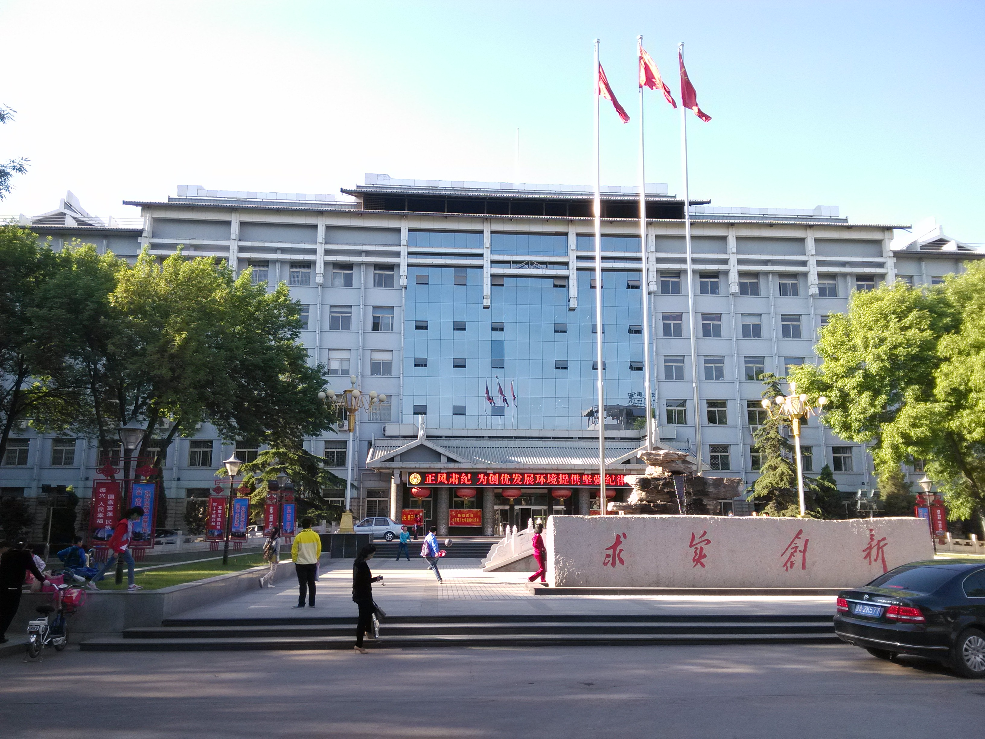 Taiyuan University of Technology Yingxi Campus Office Building.